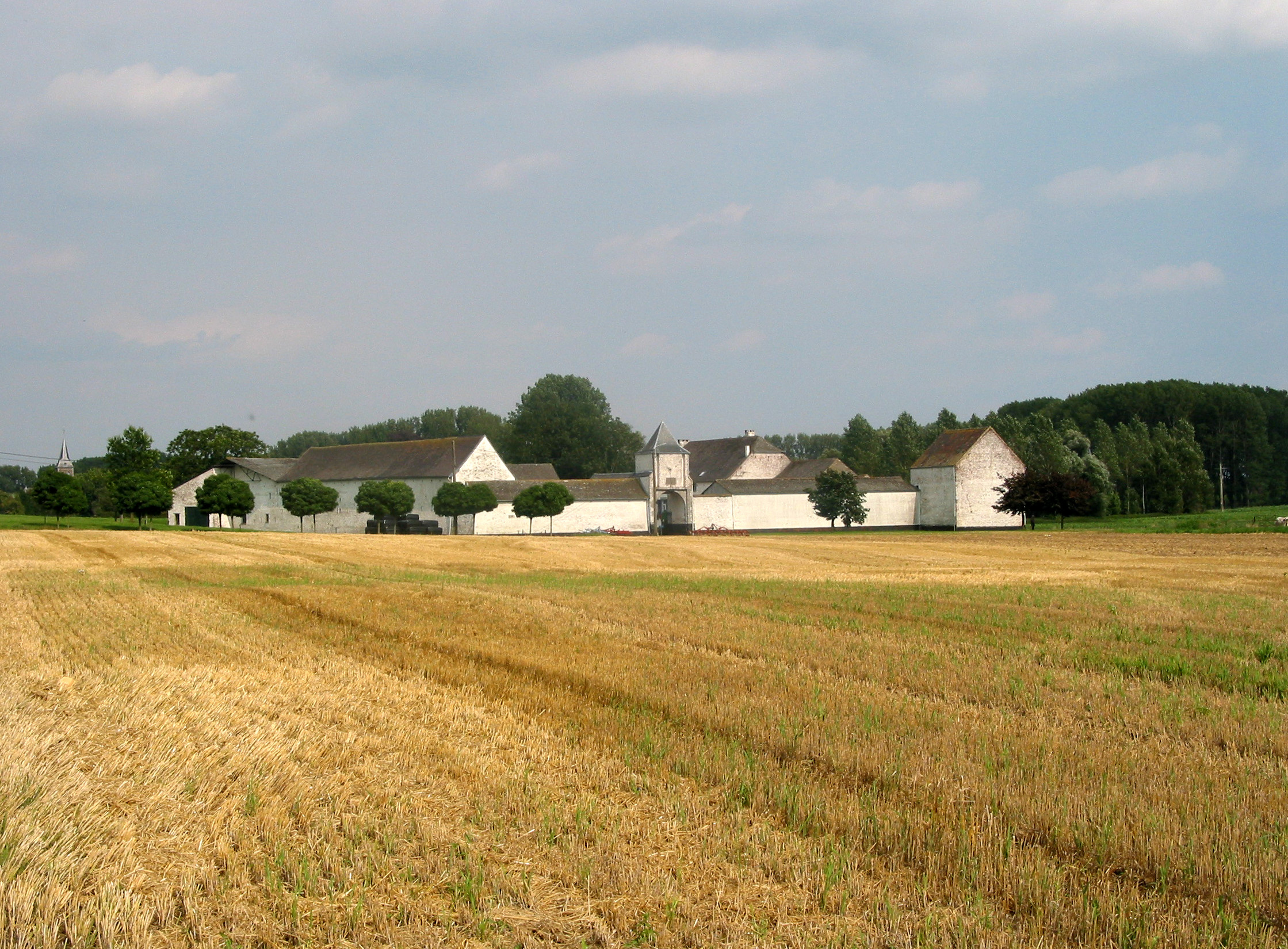 Taviers (Belgium), Hesbaye fortified farm (XVIIIth century) known as "Ferme du Château" and belonging to Rigo Family.